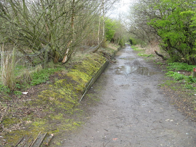 Remains of Ketley station platform and trackbed Looking due south toward Horsehay, the remains of this station on the Wellington-Craven Arms branch (closed piecemeal from the 1930s to the 1960s) have been unused since 1961. The trackbed is now a public footpath. Taken from the former site of a level crossing across what in railway days was the A5 trunk road.